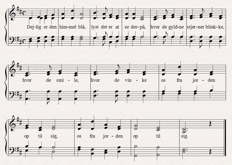 Tune and first stanza of the Danish hymn 'Dejlig er den himmel blå'. The lyrics are written by N. F. S. Grundtvig in 1810 and edited in 1853, and the music is composed by J. G. Meidell in 1840. The file is made with the program Sibelius 6.